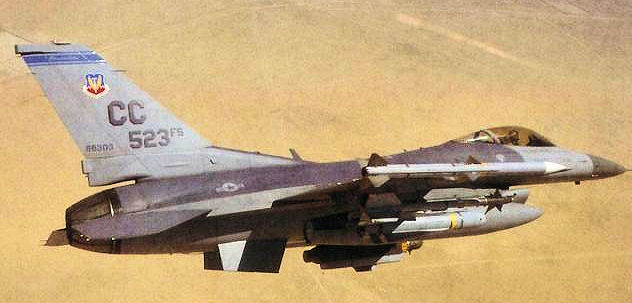 523d Fighter Squadron - General Dynamics F-16C Block 30D Fighting Falcon - 86-303